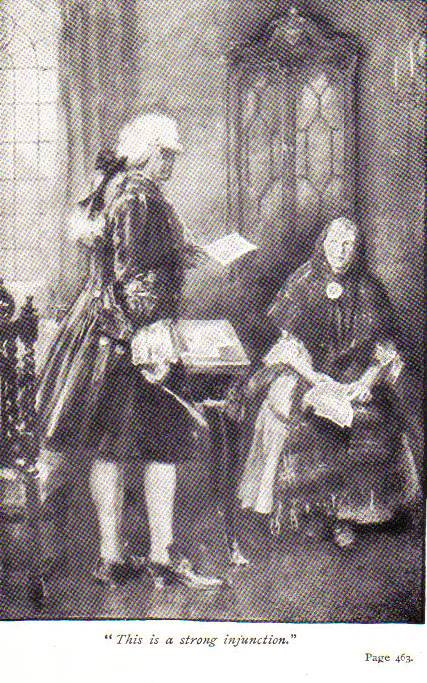 This is scanned by myself from an out-of-copyright copy of Scott's book, The Heart of Midlothian which is owned by me. The image is to be used in the Wikipedia contribution on the fictional character, Jeanie Deans.